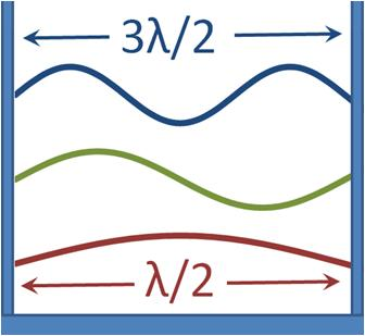 Standing sine waves in a box